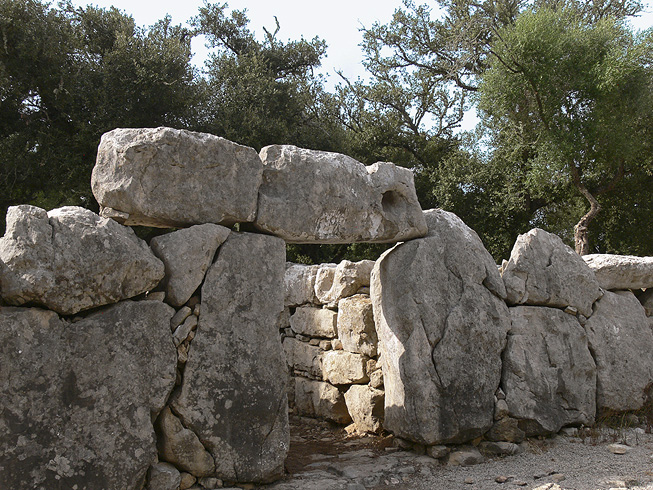 Gateway in the "cyclopean" dry-stone walls, built circa 1000BC–800BC, surrounding the Talayotic settlement of Ses Païsses, off the Carretera de Ses Païsses, southeast of Artà in northwest Mallorca.